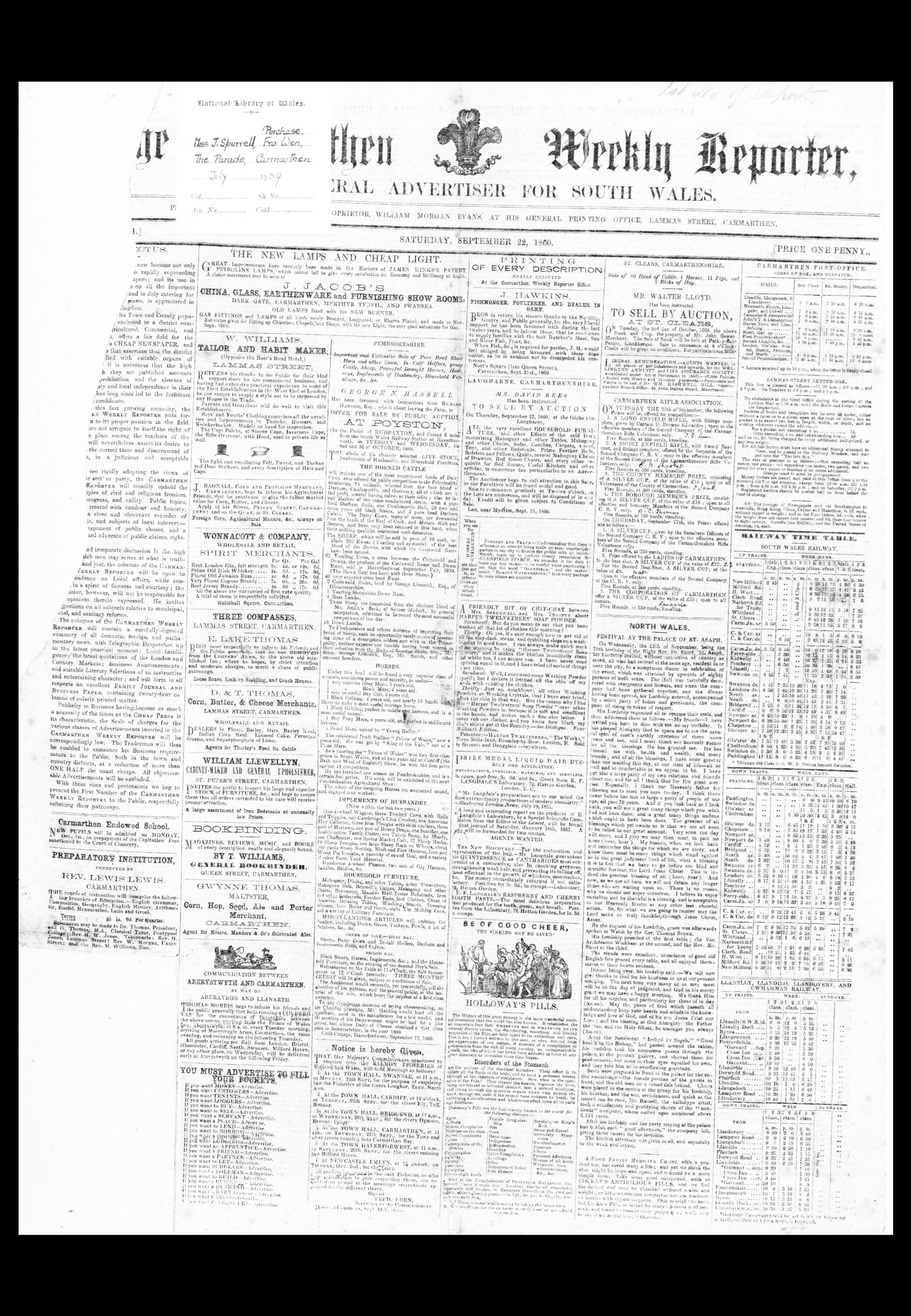 Front page of the earliest surviving copy of the Welsh newspaper The Carmarthen Weekly Reporter